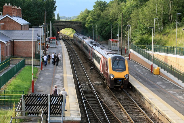 The restored Moorthorpe station building with a train approaching platform one.